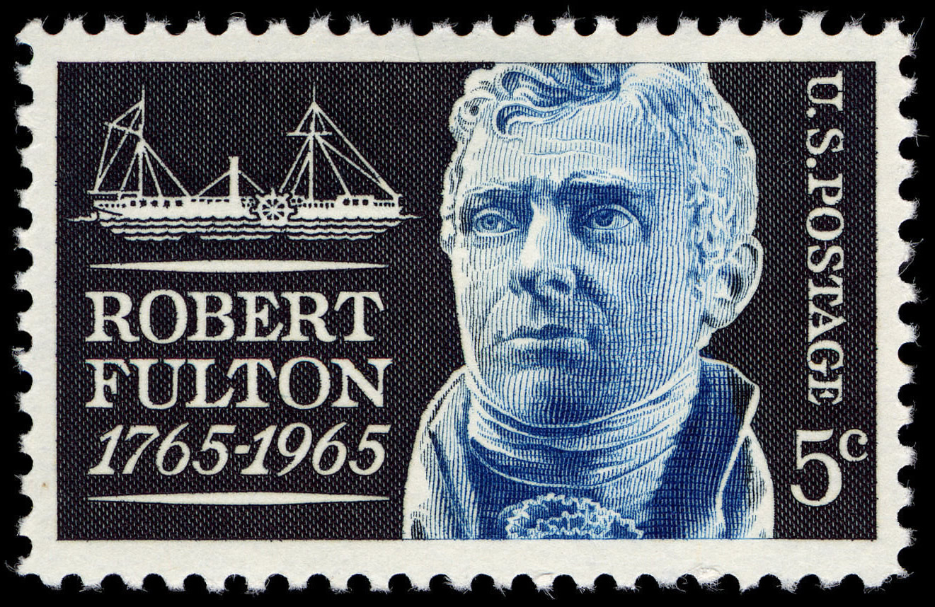 Robert Fulton Issue - 1765-1965 - 5-cent 1965 U.S. stamp, commemorating the 200th anniversary of the birth of Robert Fulton (1765-1815).